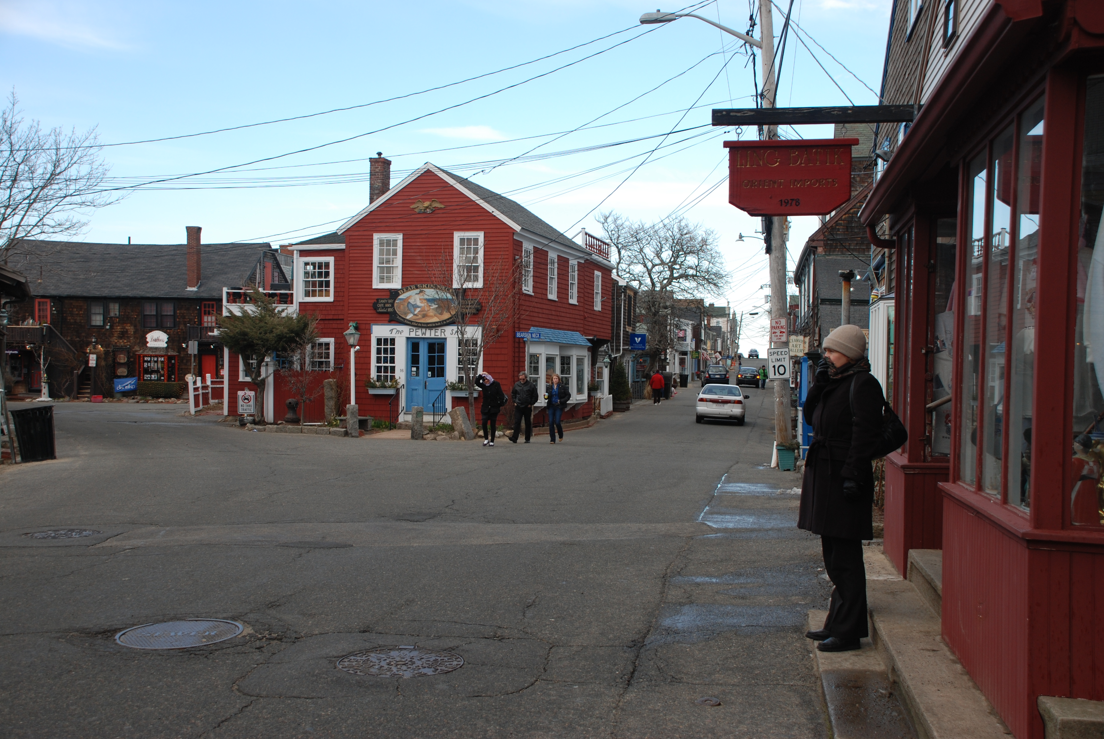 Bearskin Neck houses in Rockport (Massachusetts, USA)